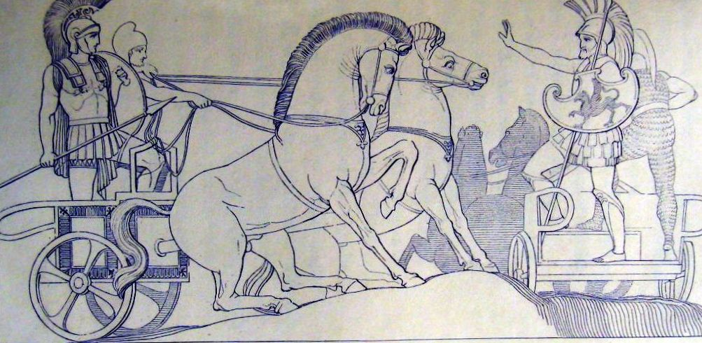 Polydamus attempting to stop Hector attacking the Greeks, from the The Iliad